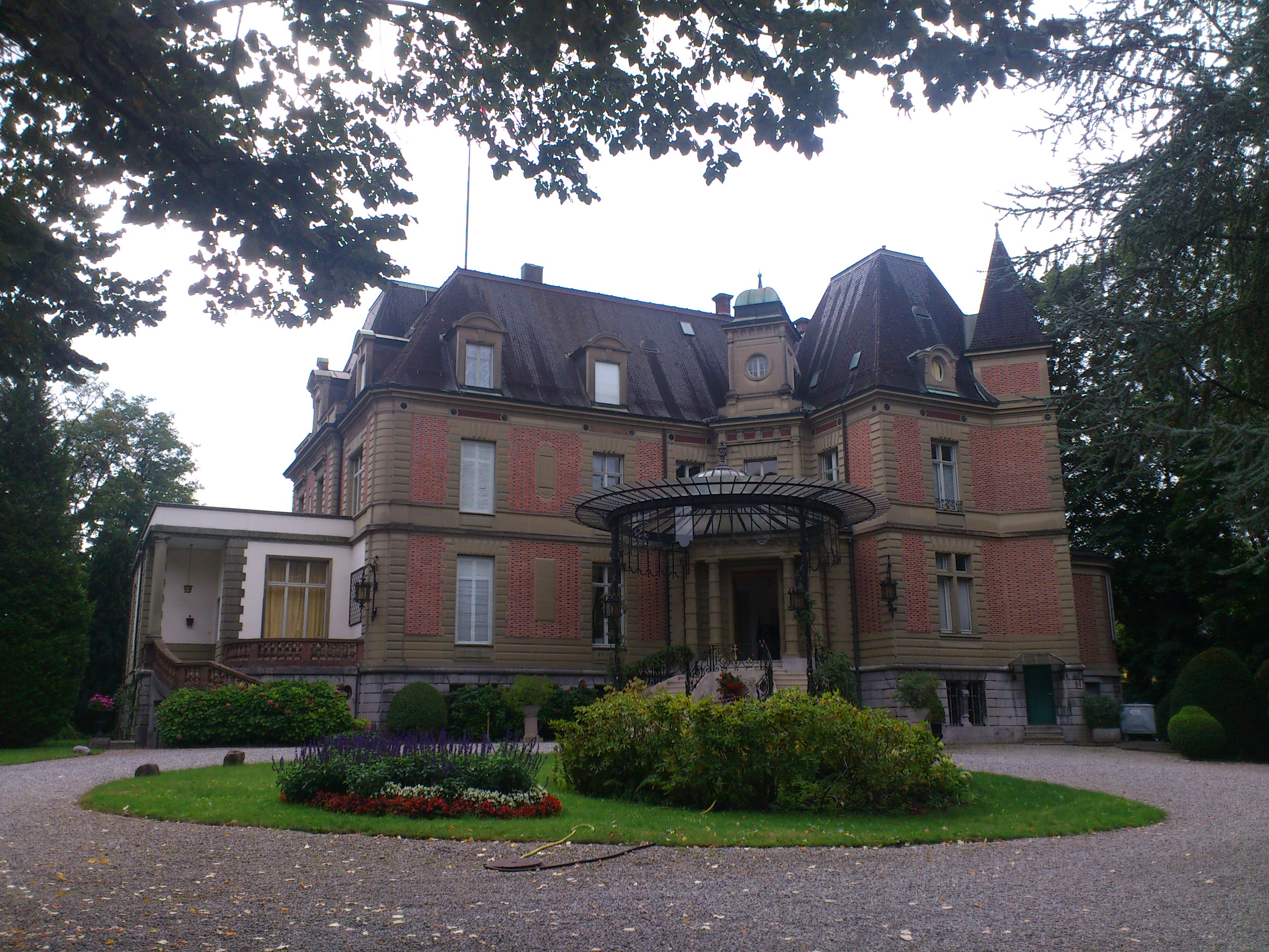 Ambassadorial residence of France in Bern (Switzerland)